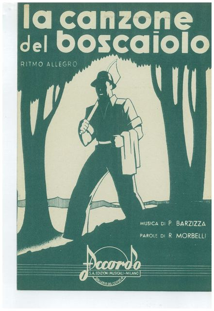 Cover "La Canzone del Boscaiolo" S.A. Edizioni Musicali - Milano